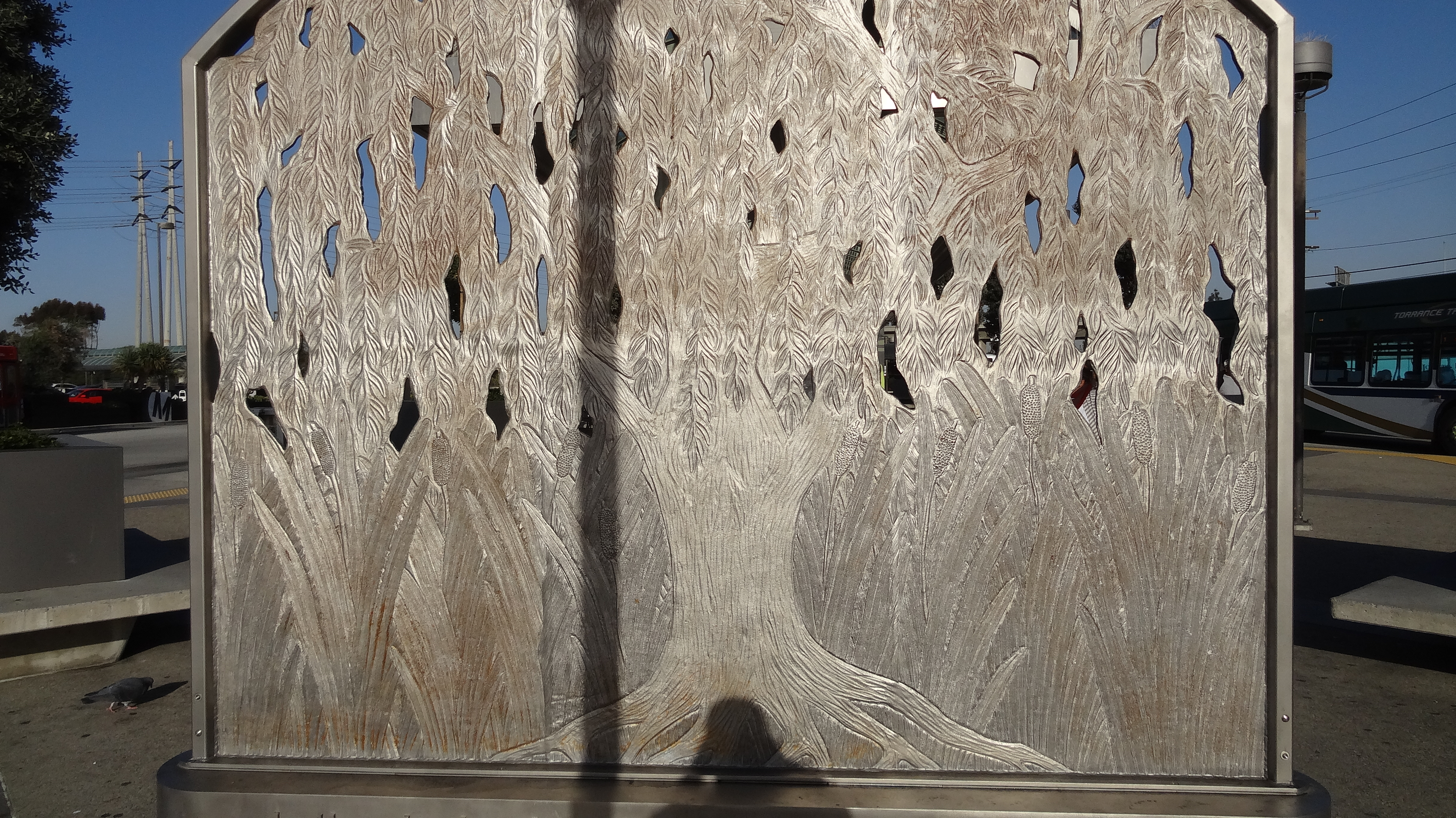 Art work at Harbor Gateway Transit Center.